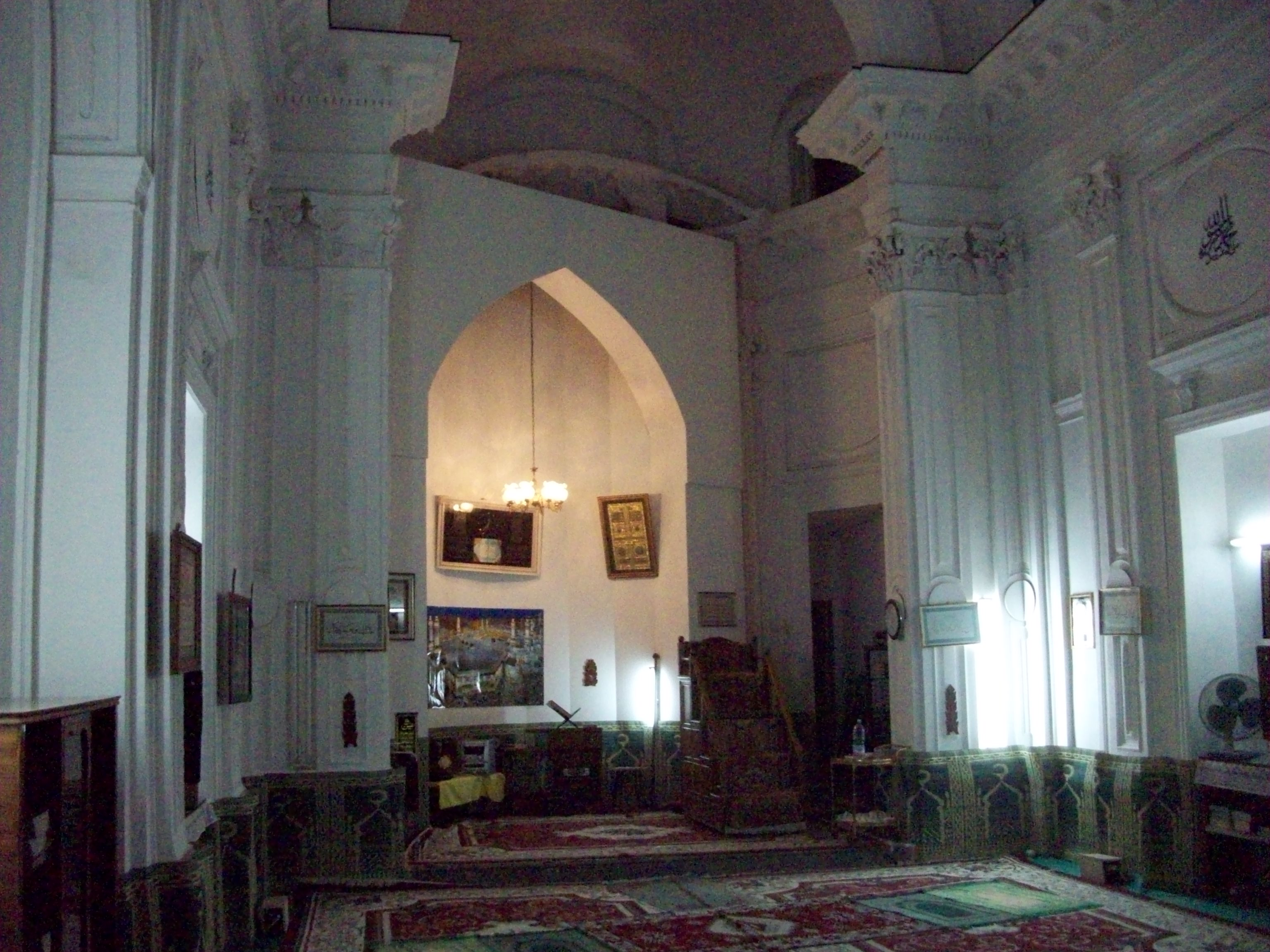 Tunisian mosque in Palermo, Italy